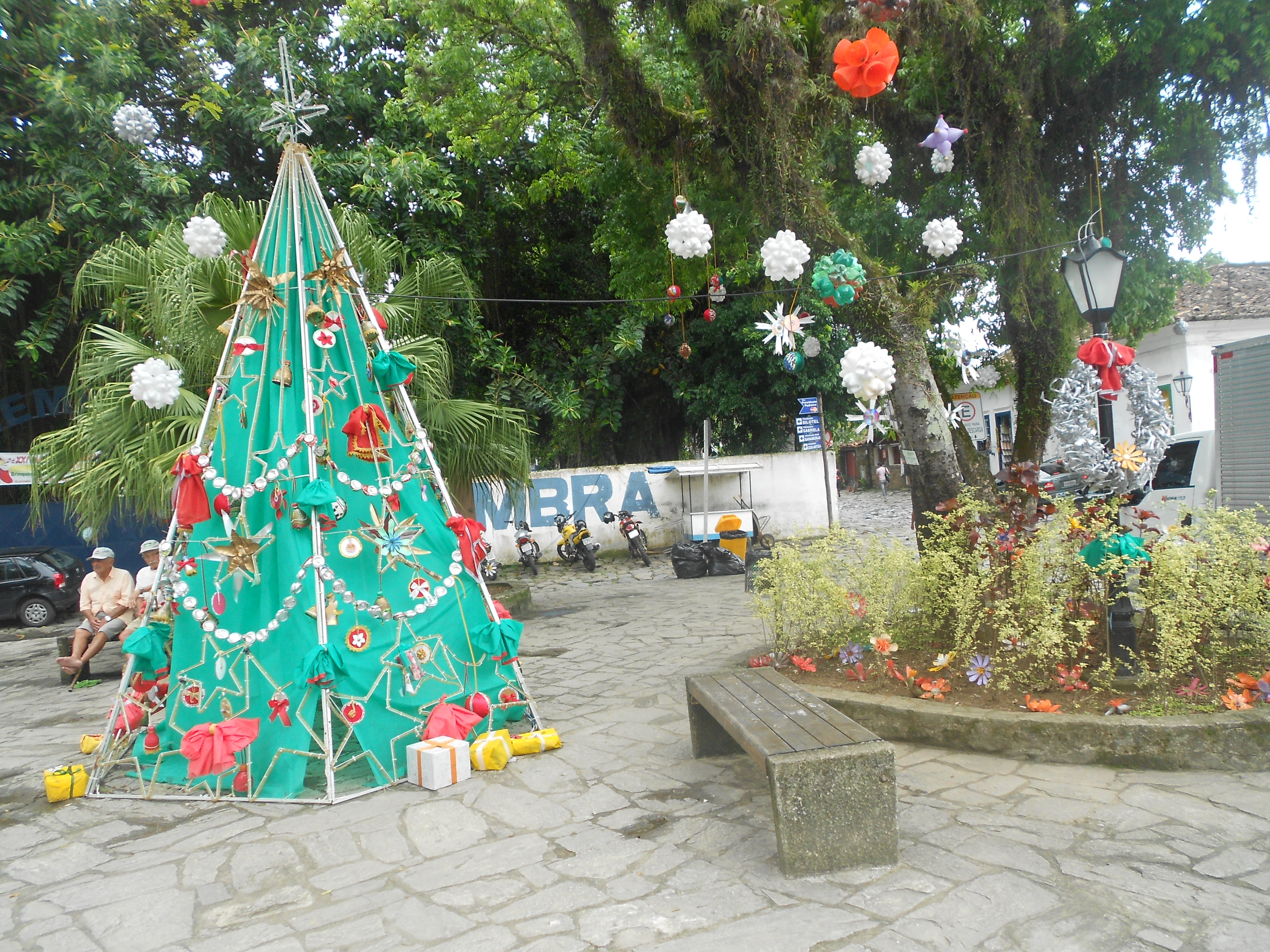 Christmas decorations in Paraty, Rio de Janeiro state, Brazil.